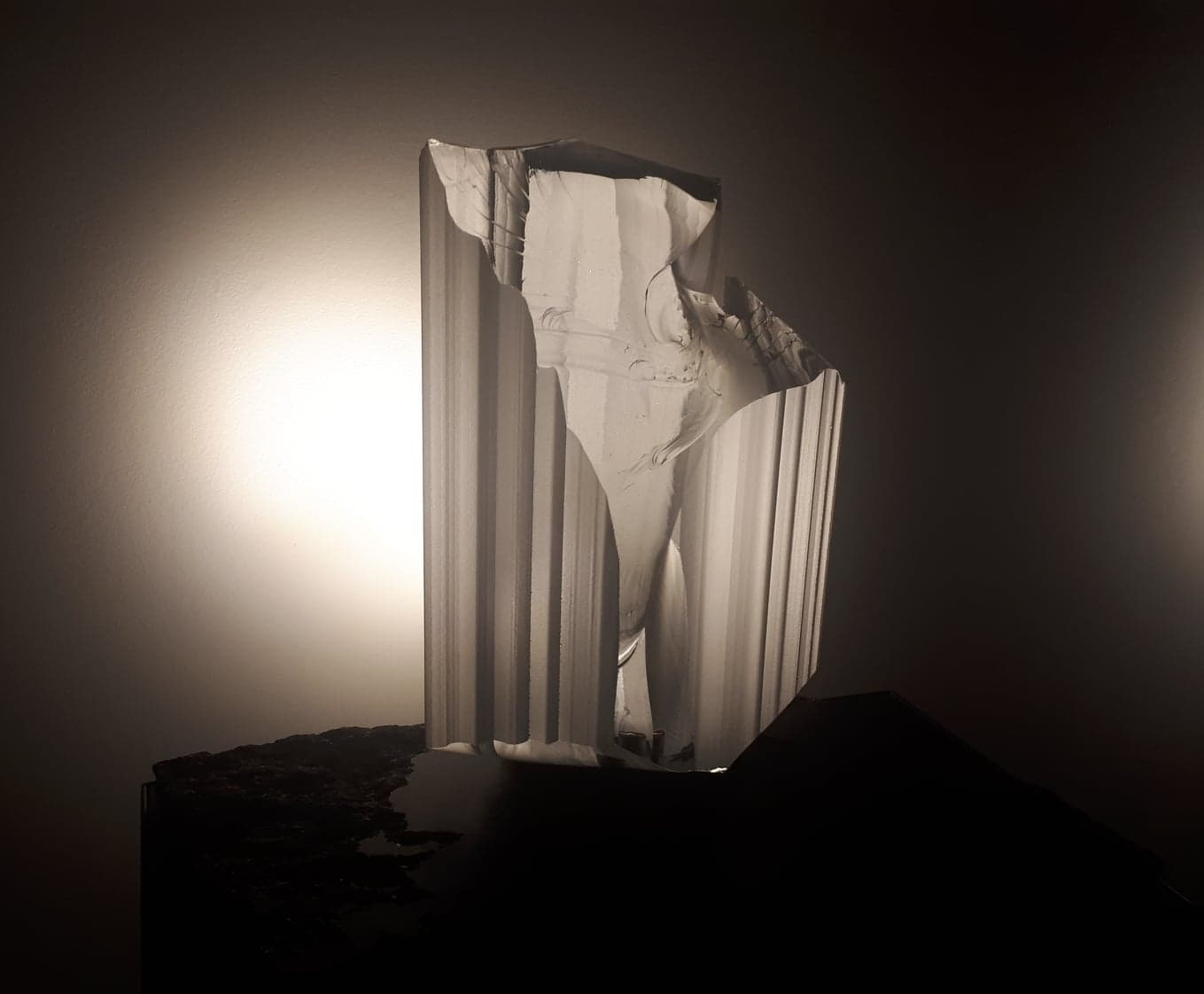 The Year Zero, Glass art by Timo Sarpaneva from 1985